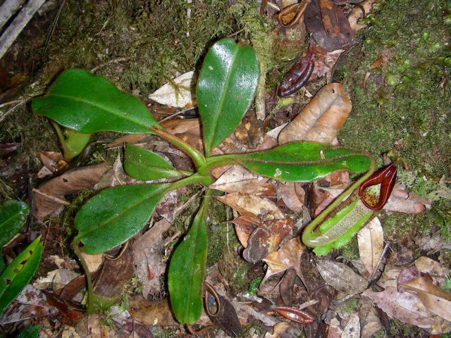 Nepenthes eymae, Sulawesi